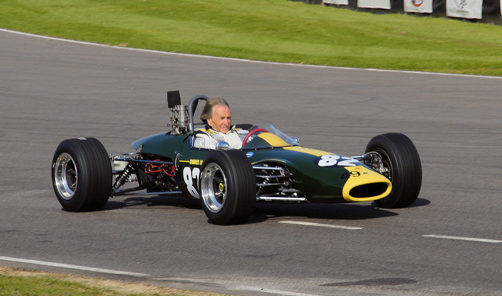 Derek Bell demonstrating a Lotus 41 Formula 3 car, seen at Goodwood on 21st September 2008.